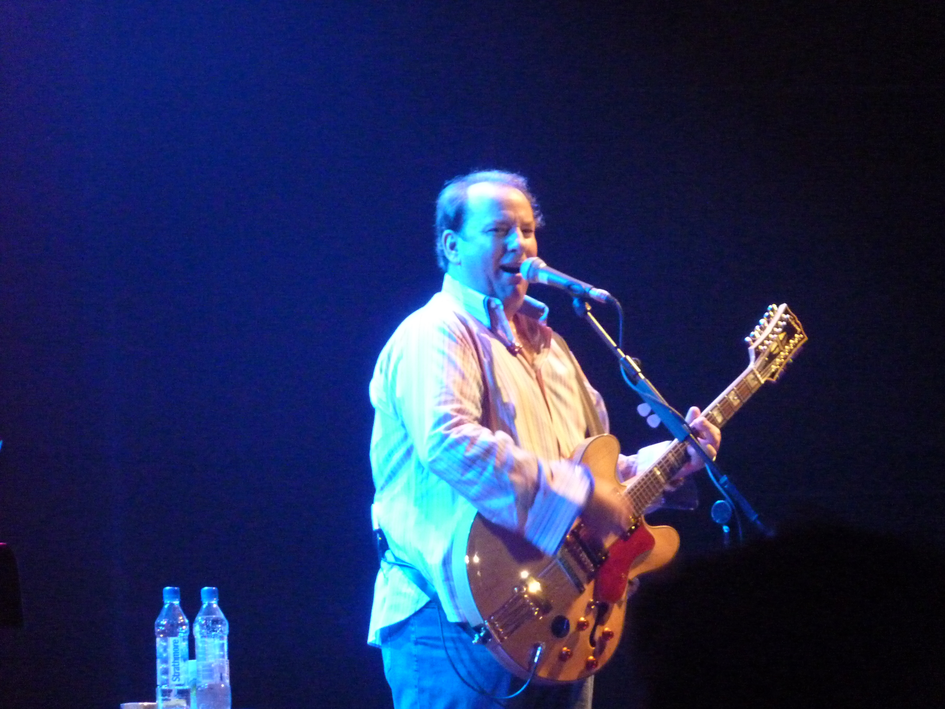 Sung some of the high bits!